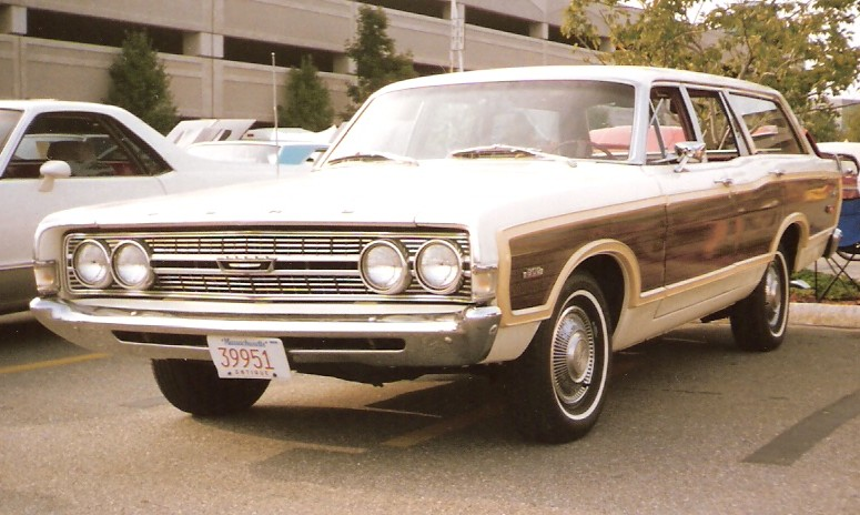 1968 Ford Torino Squire I photographed in Beverly, Massachusetts.